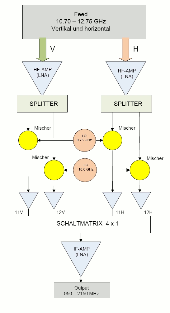 Block Diagramm of an LNB